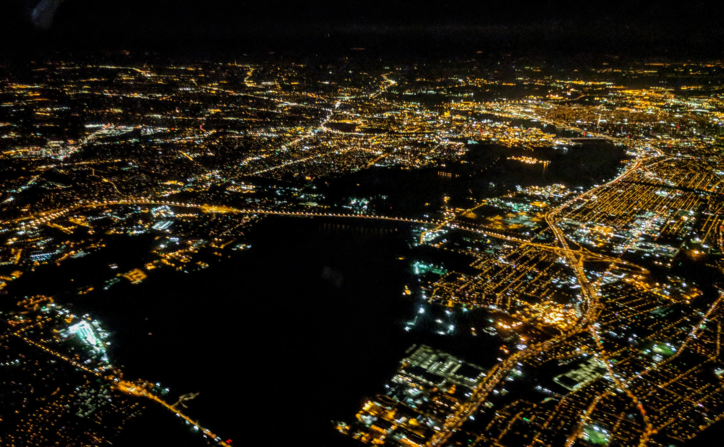 Night aerial view of Delaware River crossings from the north. The Betsy Ross Bridge (center) crosses from Bridesburg, Pennsylvania, at the right, to Pennsauken Township, New Jersey, at left and upper center. The Tacony–Palmyra Bridge is visible at the lower left, and the Ben Franklin Bridge in the distance at upper right.